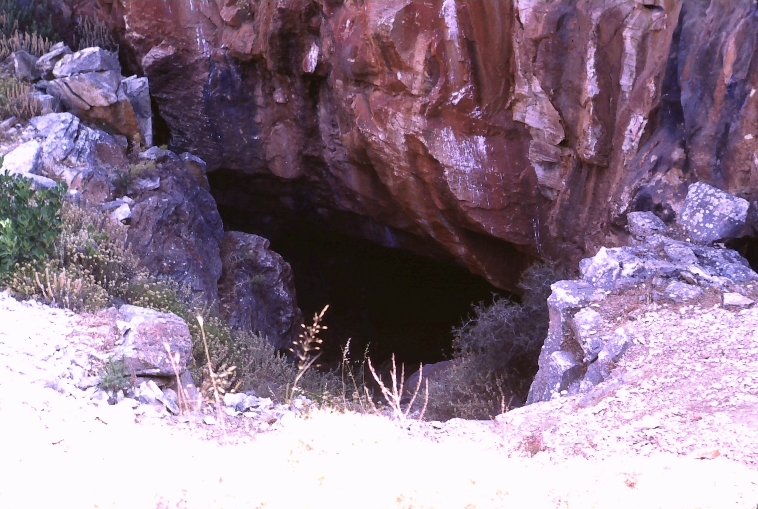 Entrance to a marble quarry on the island of Paros in the Cyclades. This one was the longest at 100 metres. The marble of the Venus de Milo is believed to have been extracted here.